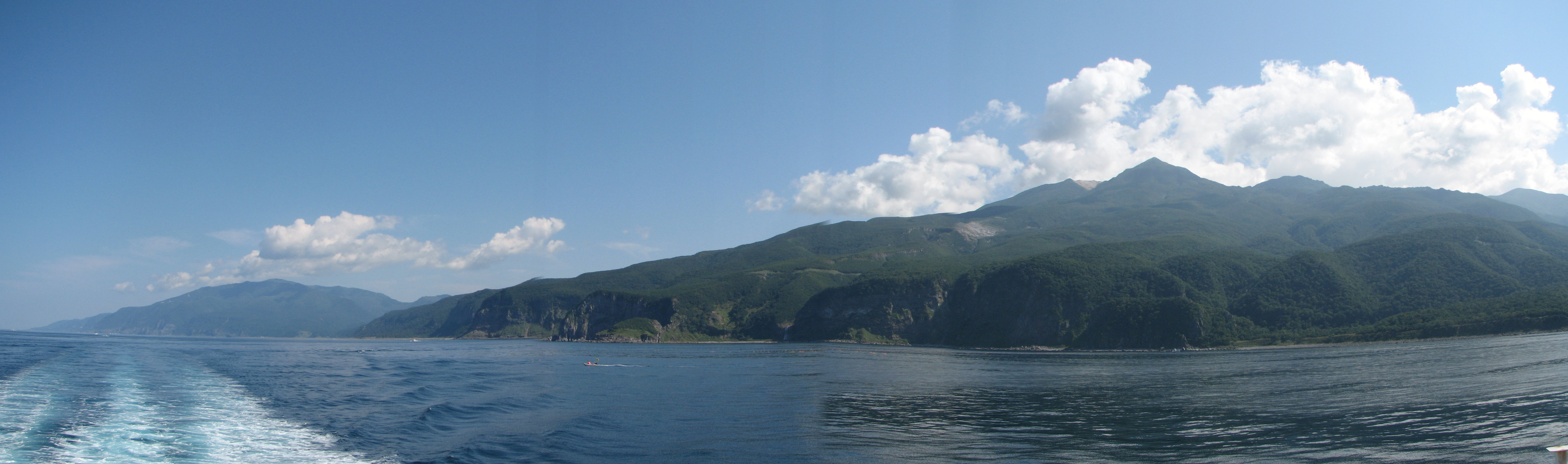 View of Shiretoko National Park. Mount Iō (right) and Mount Shiretoko (far left) seen from Sea of Okhotsk. Six seperate photos wer taken and stiched together with a software.